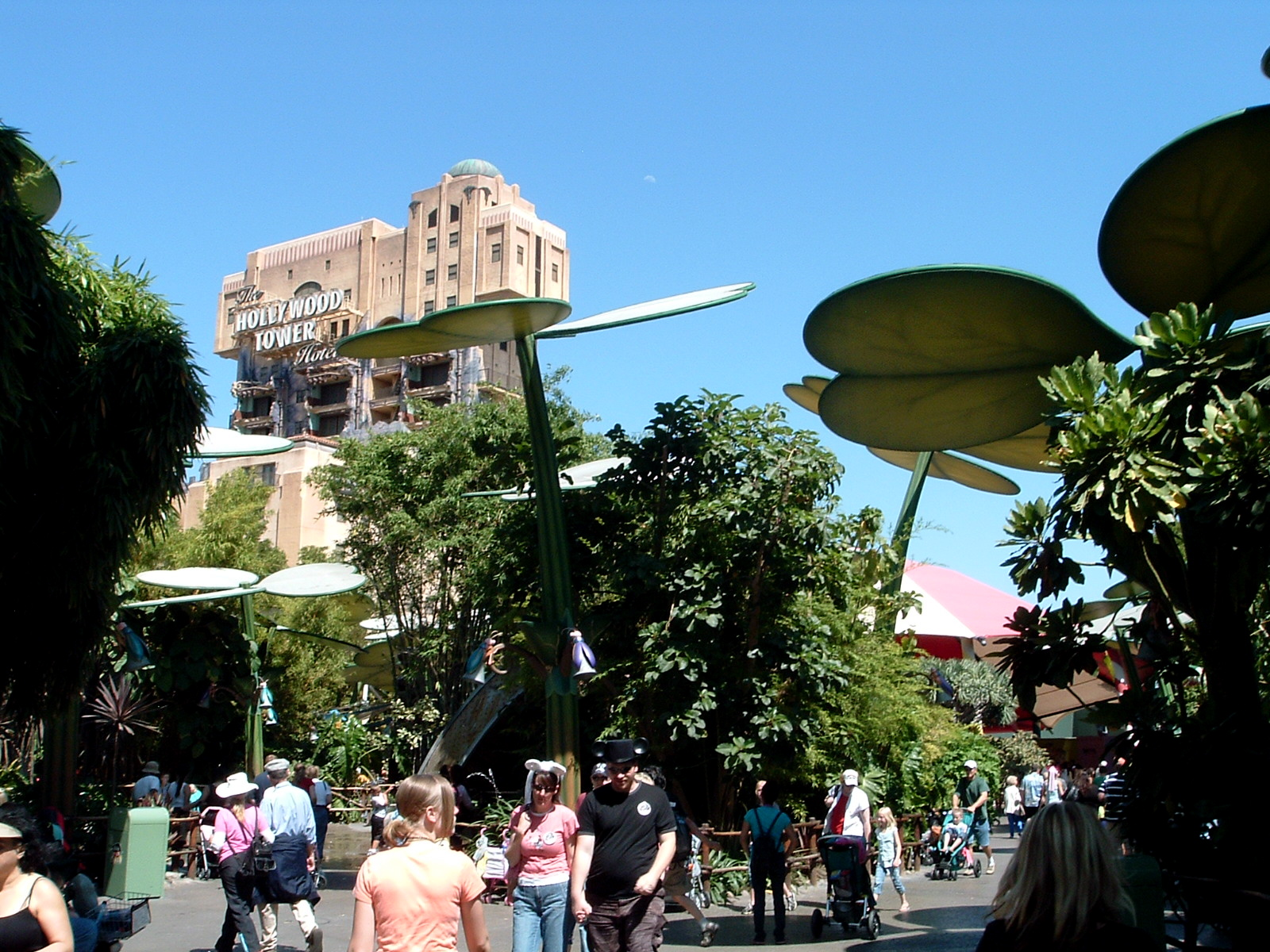 Flik's Fun Fair in A Bug's Land